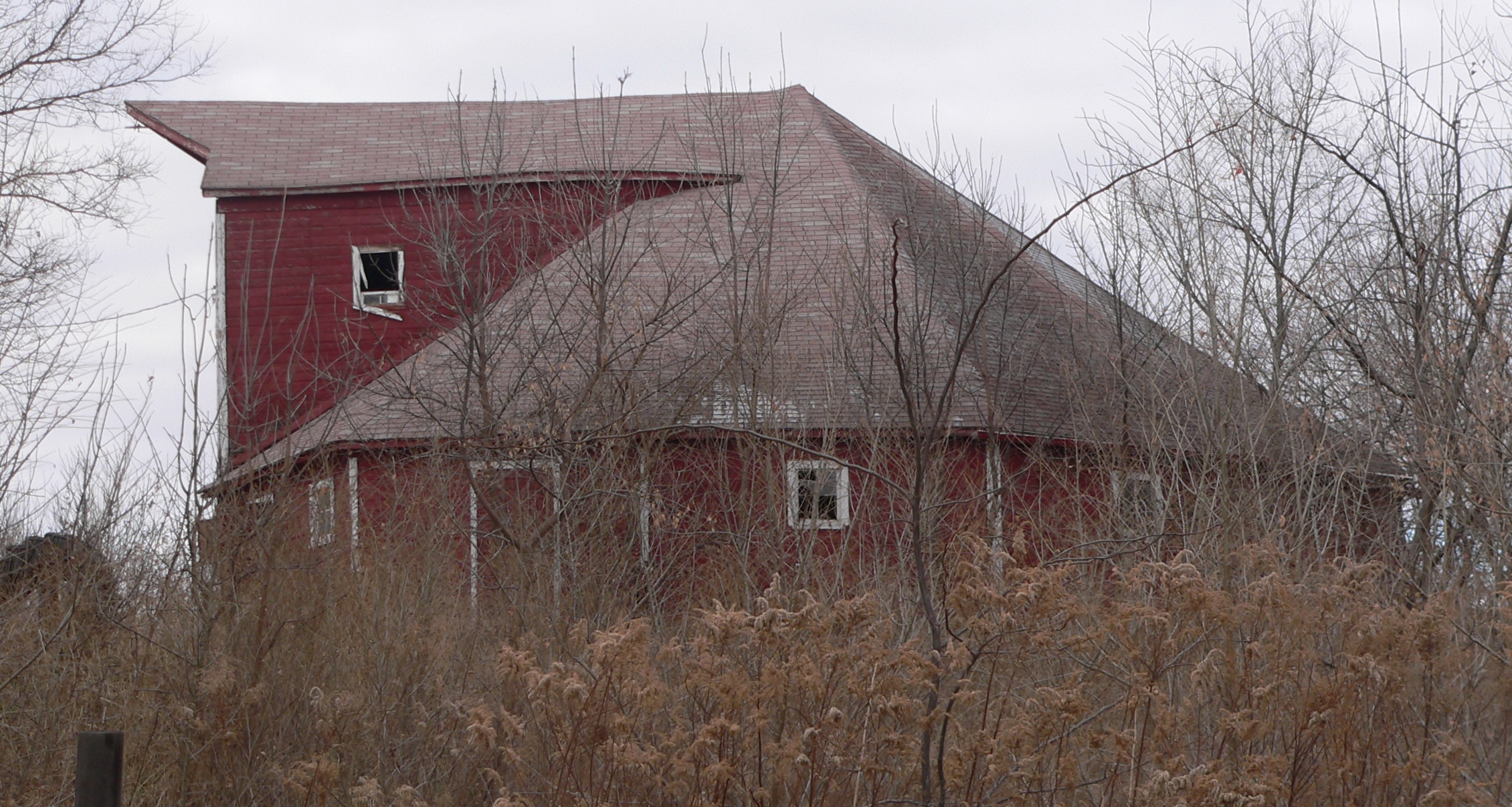 Couser Barn in Cedar County, Nebraska; seen from the east.